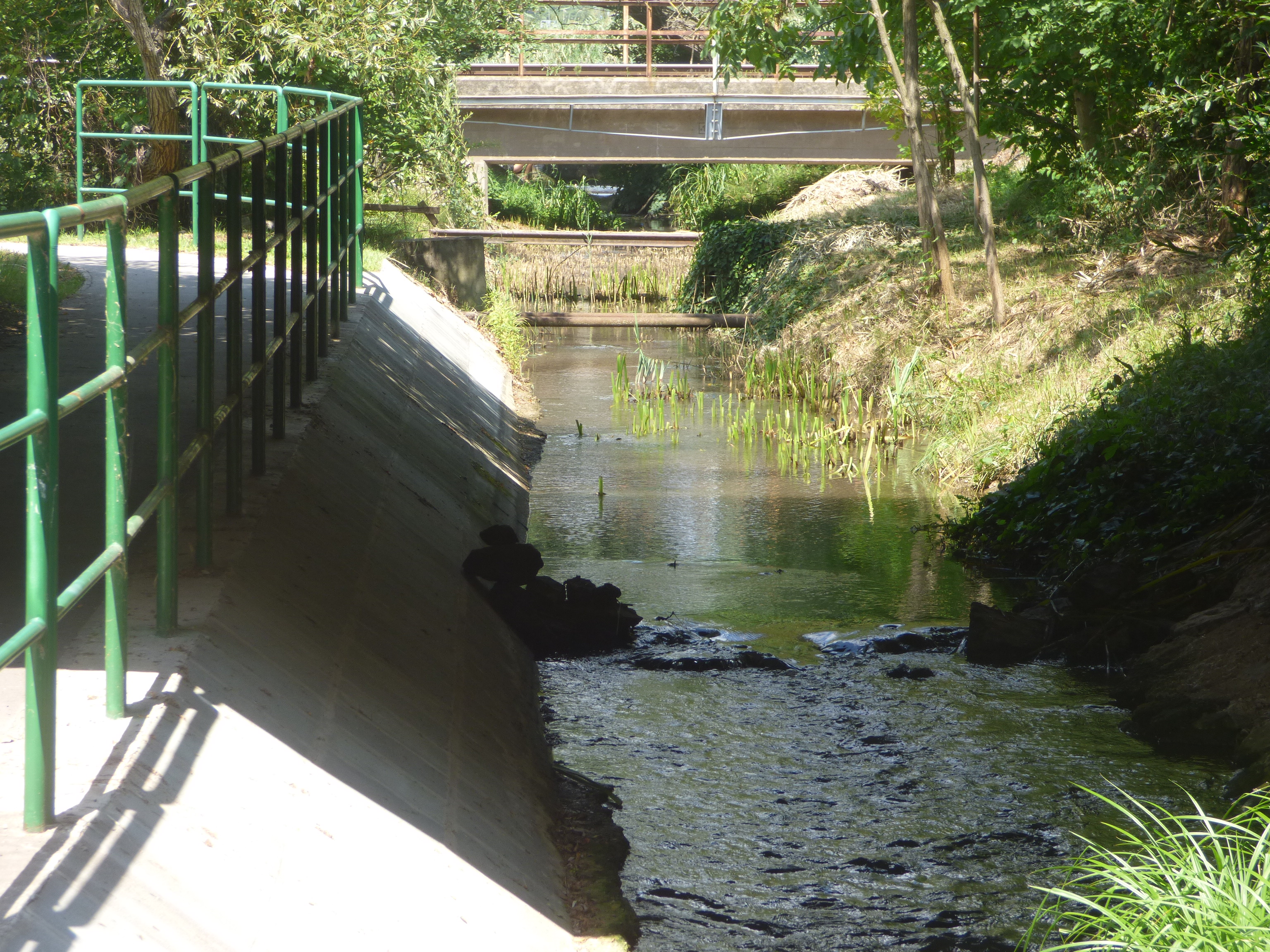 A Lovasi-Séd a parti kerékpárútról észak felé nézve